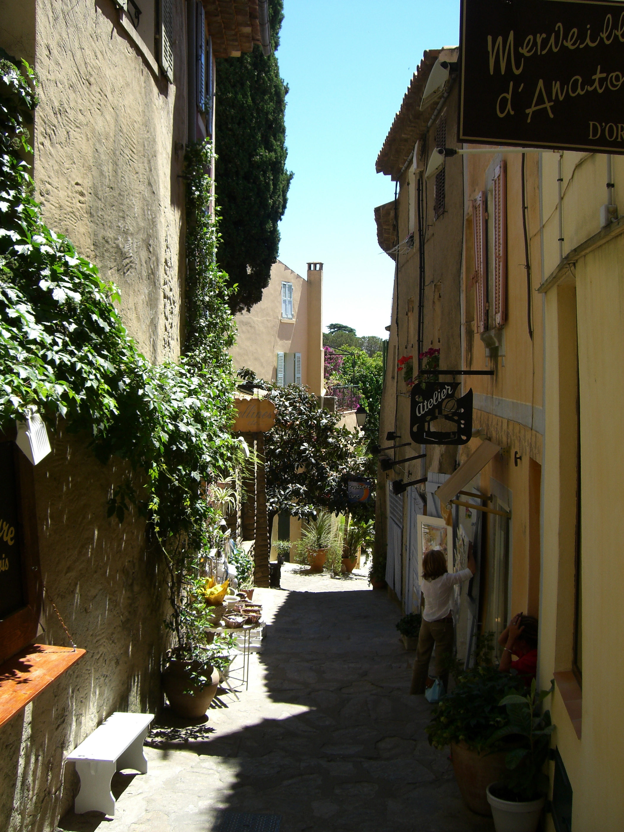 Bormes-les-Mimosas, France, the village